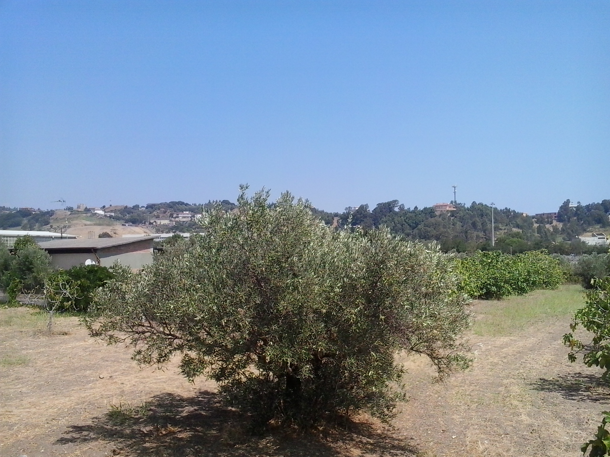 Agriculture in Italy (Catanzaro)